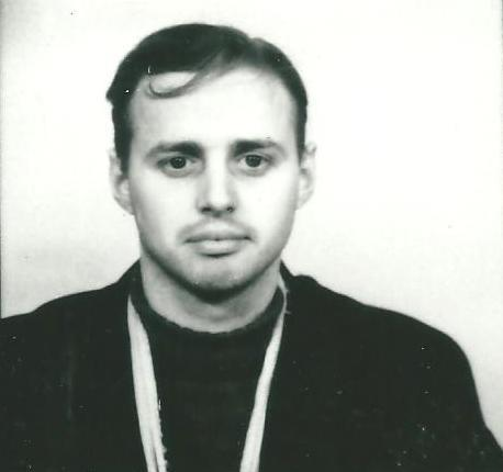 Jørgen von Führen Kieler (born 1919), Danish resistance member. Photo in the Museum of Danish Resistance